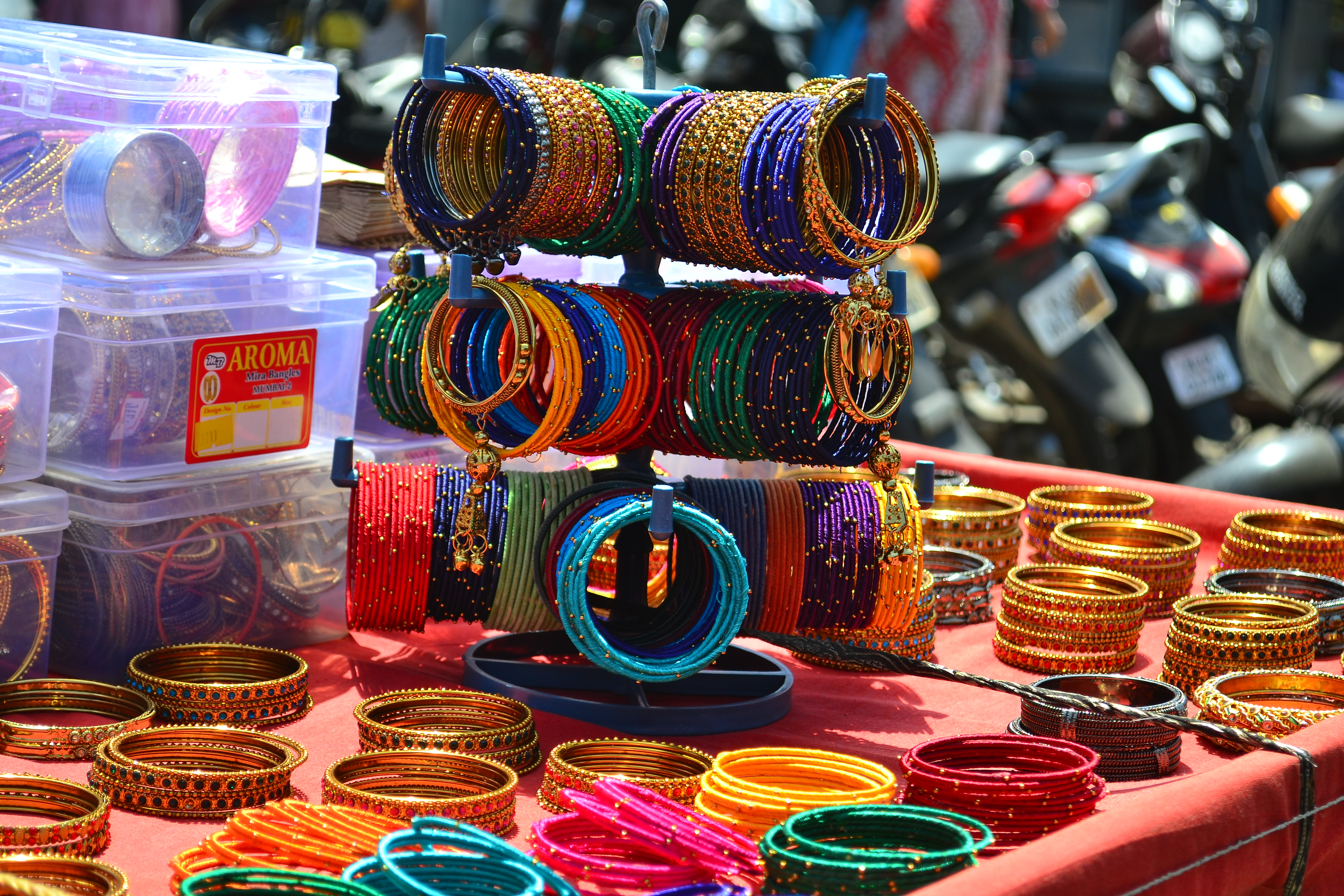 Street vending shot from East fort